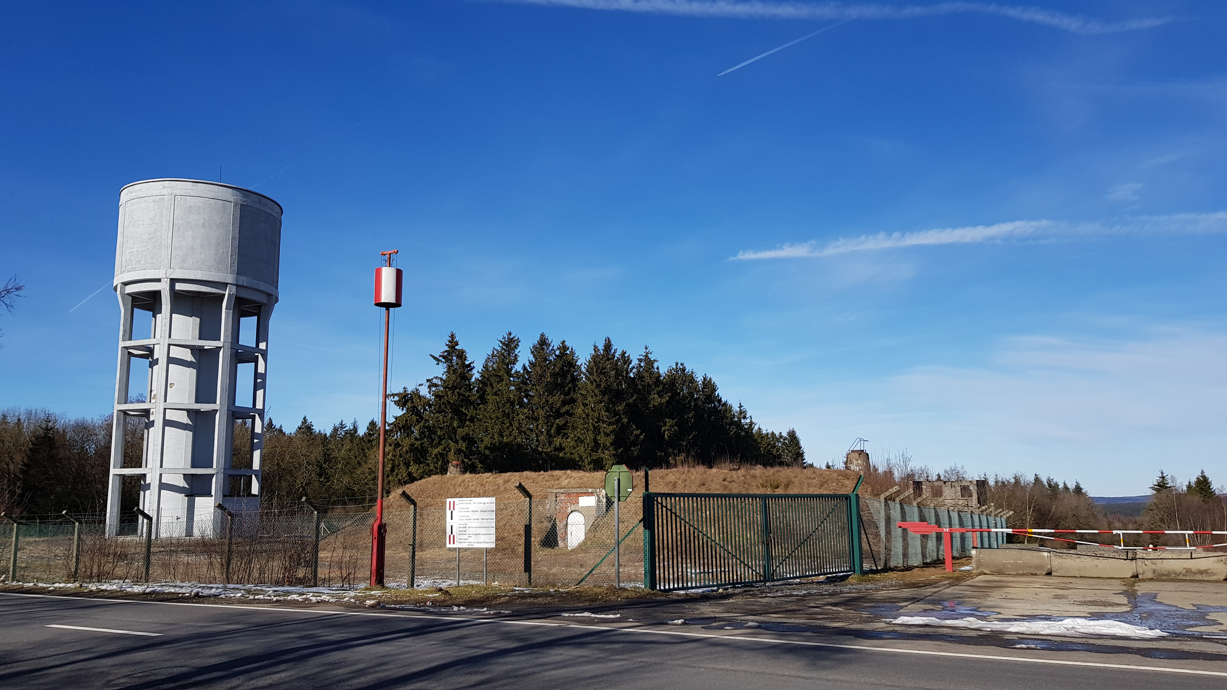 Watertower, Elsenborn, Belgium